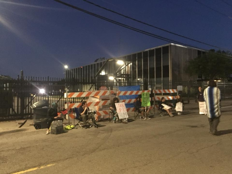 Photo of protesters from OccupyICE Detroit blocking one of three entrances to the Detroit ICE Field Office.